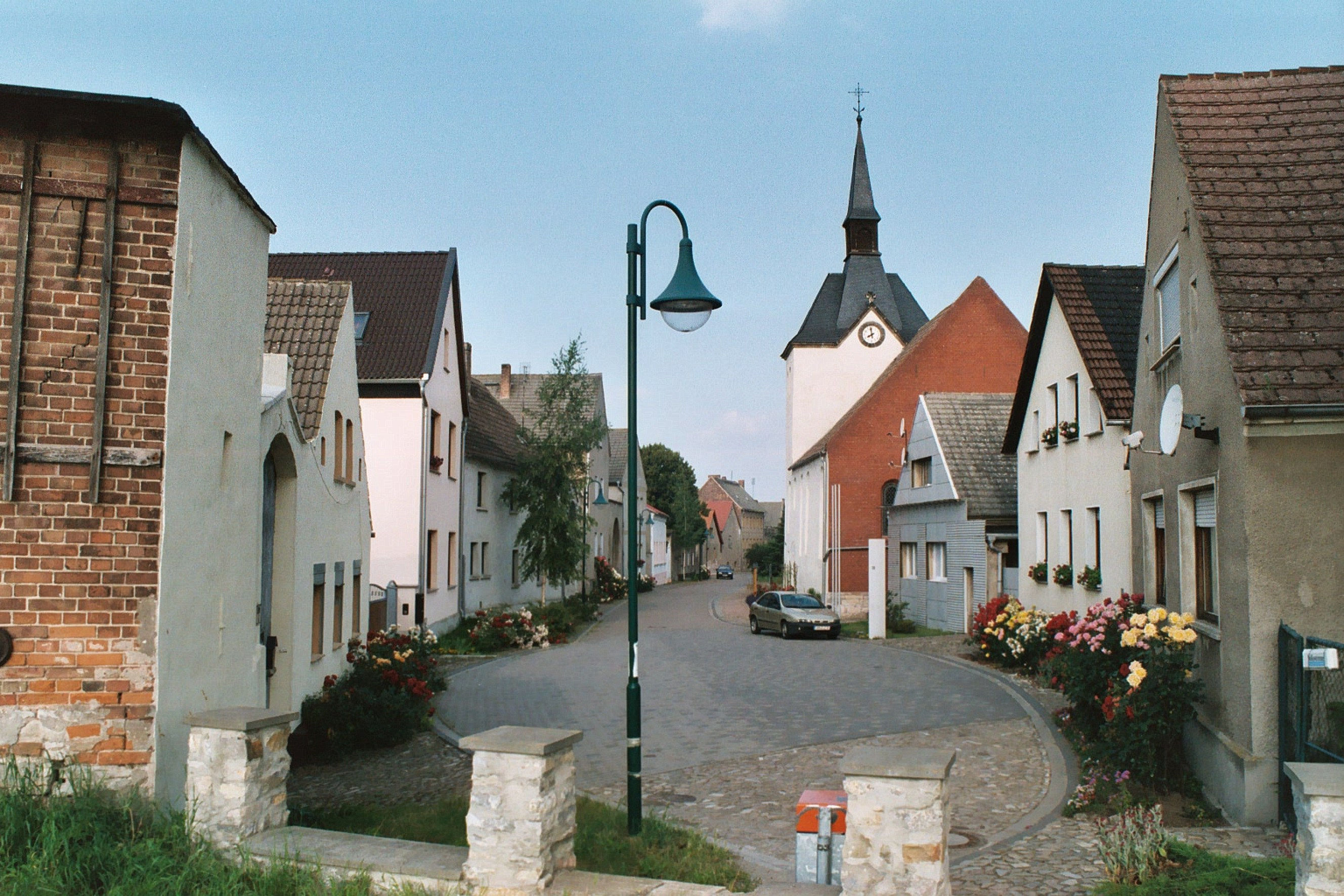 Werkleitz (Barby), the Saalestraße and the village church